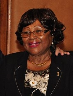 Ruffine Tsiranana Malagasy politician in 2014.